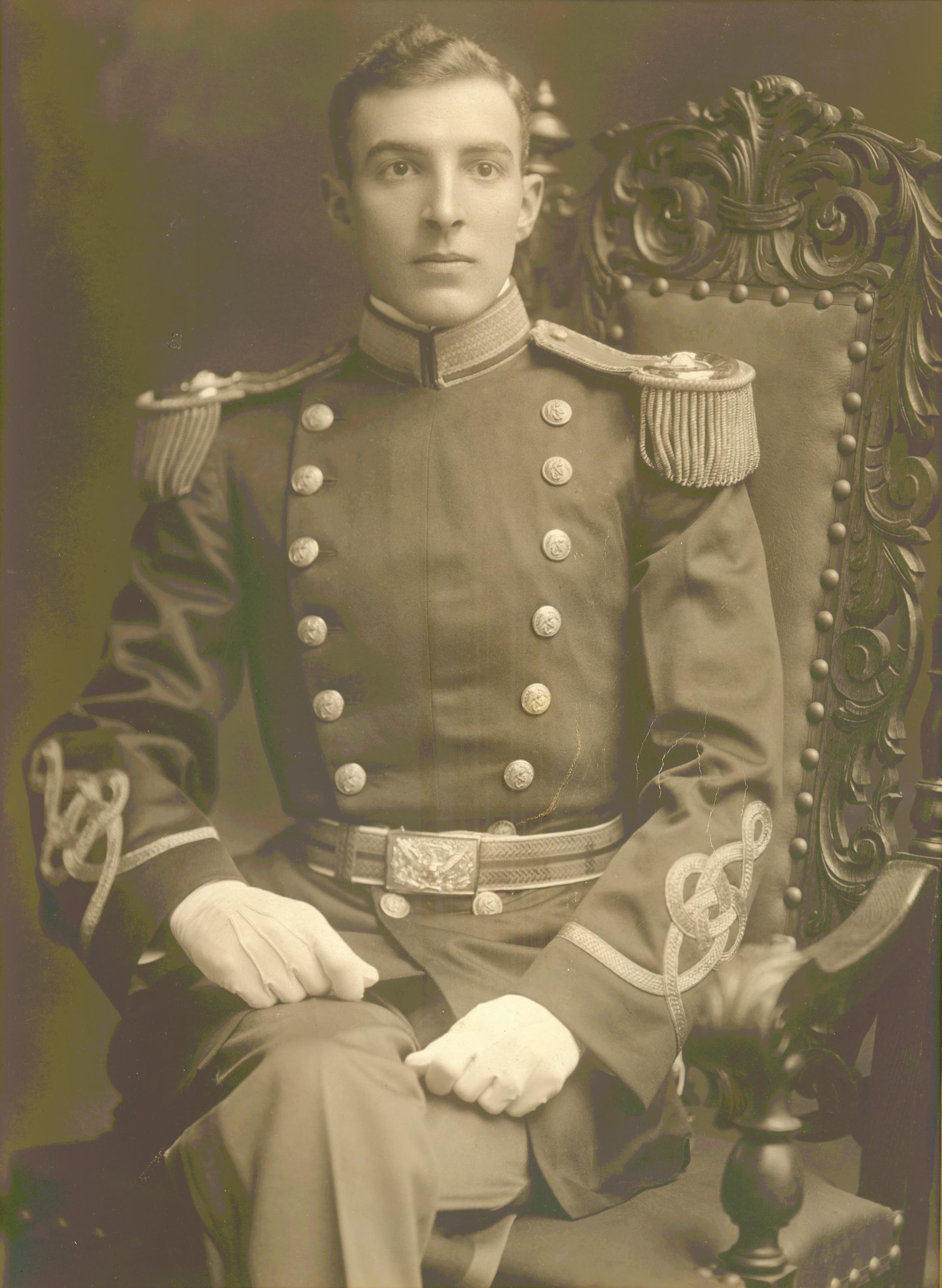 Lloyd Williams served as a company commander of 51st Company, 2d Battalion, 5th Marines during the battle of Belleau Wood. He is credited with saying "Retreat? Hell, we just got here!" when advised to withdraw by a French officer at the defensive line just north of the village of Lucy-le-Bocage. He died on 12 June 1918 of wounds received while leading an assault. From the Lloyd W. Williams Collection (COLL/77) at the Marine Corps Archives and Special Collections OFFICIAL USMC PHOTOGRAPH